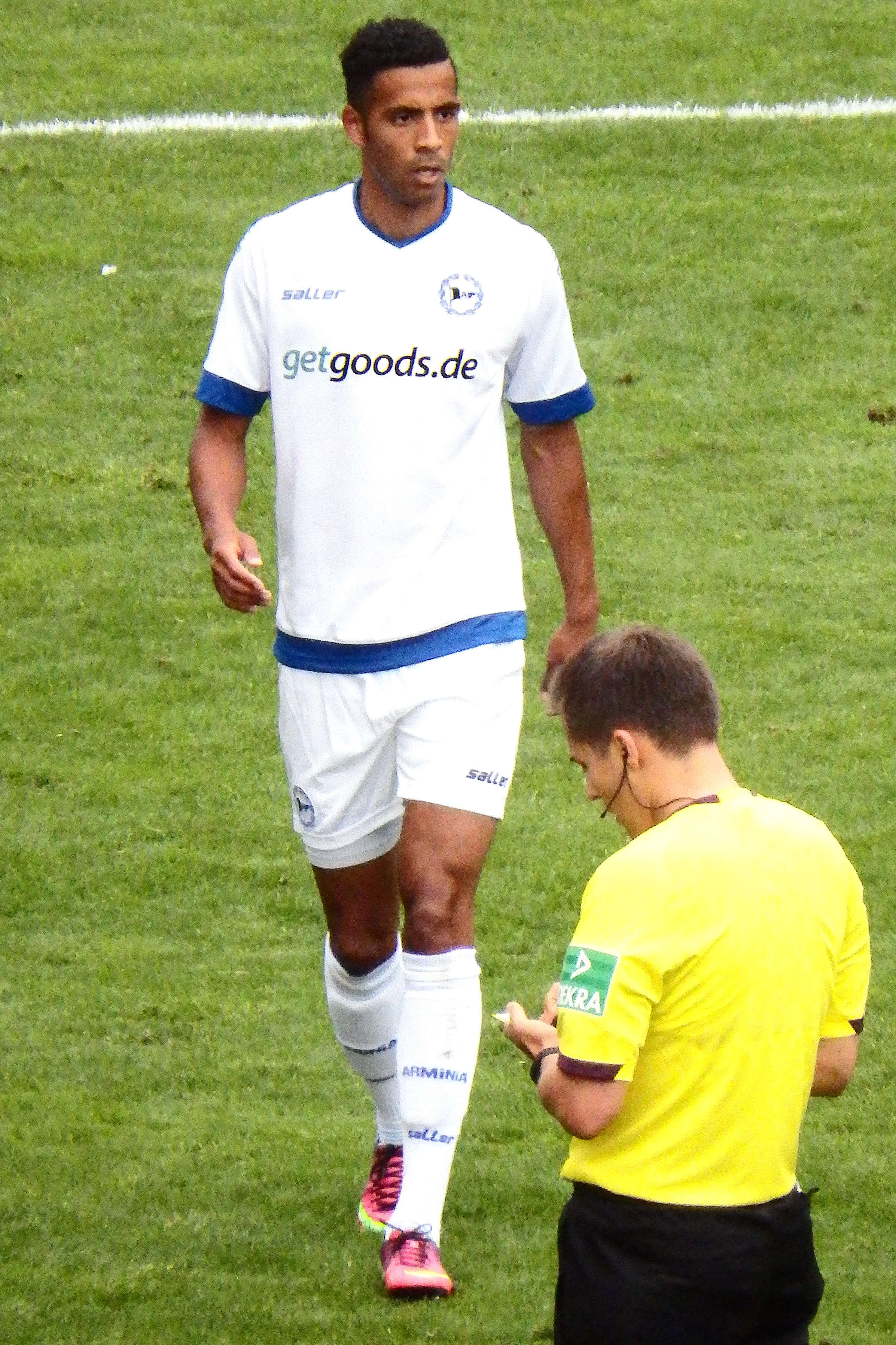 Marcel Appiah as Player of Arminia Bielefeld